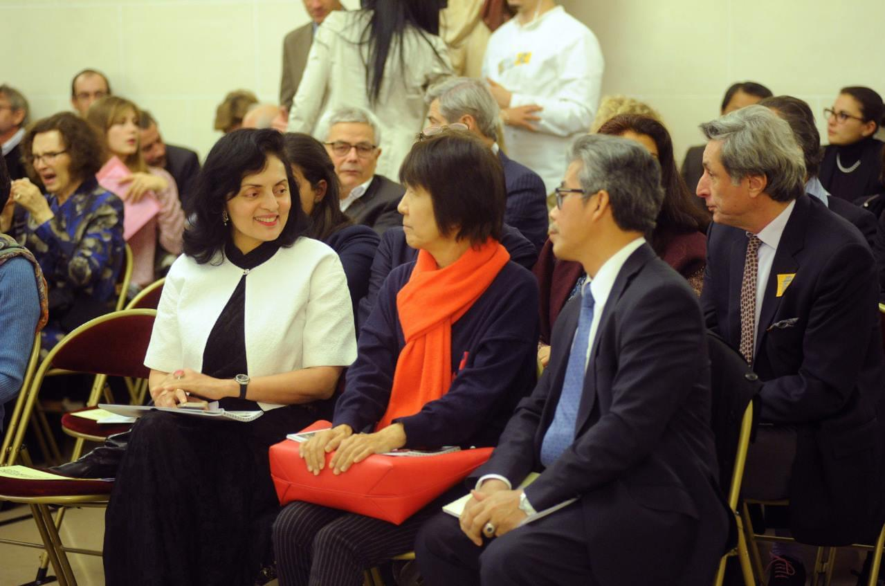 Ambassador Ruchira Kamboj at the French Senate, 2015.